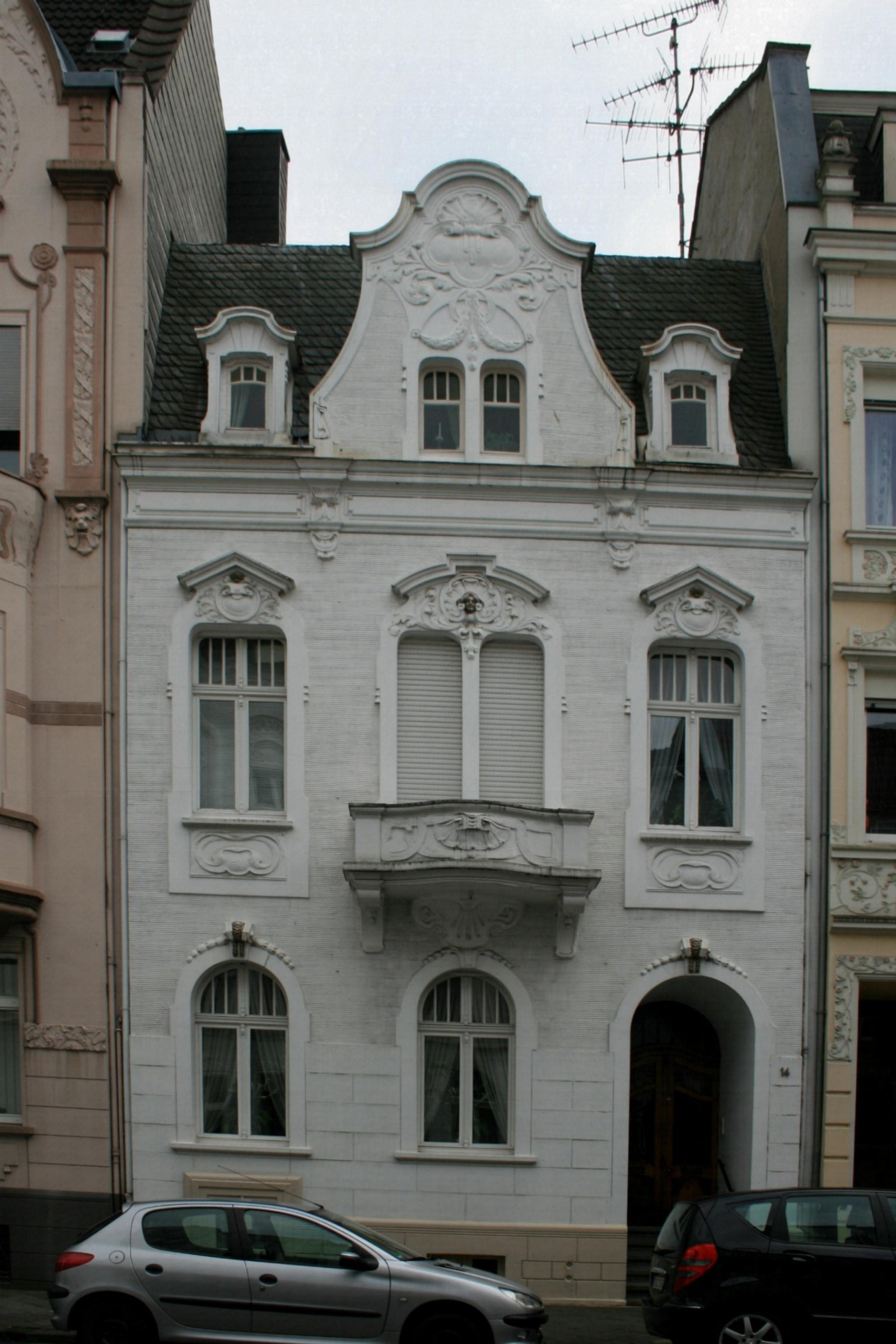 Cultural heritage monument No. H 055 in Mönchengladbach